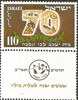 Bilu 70 anniversary stamp